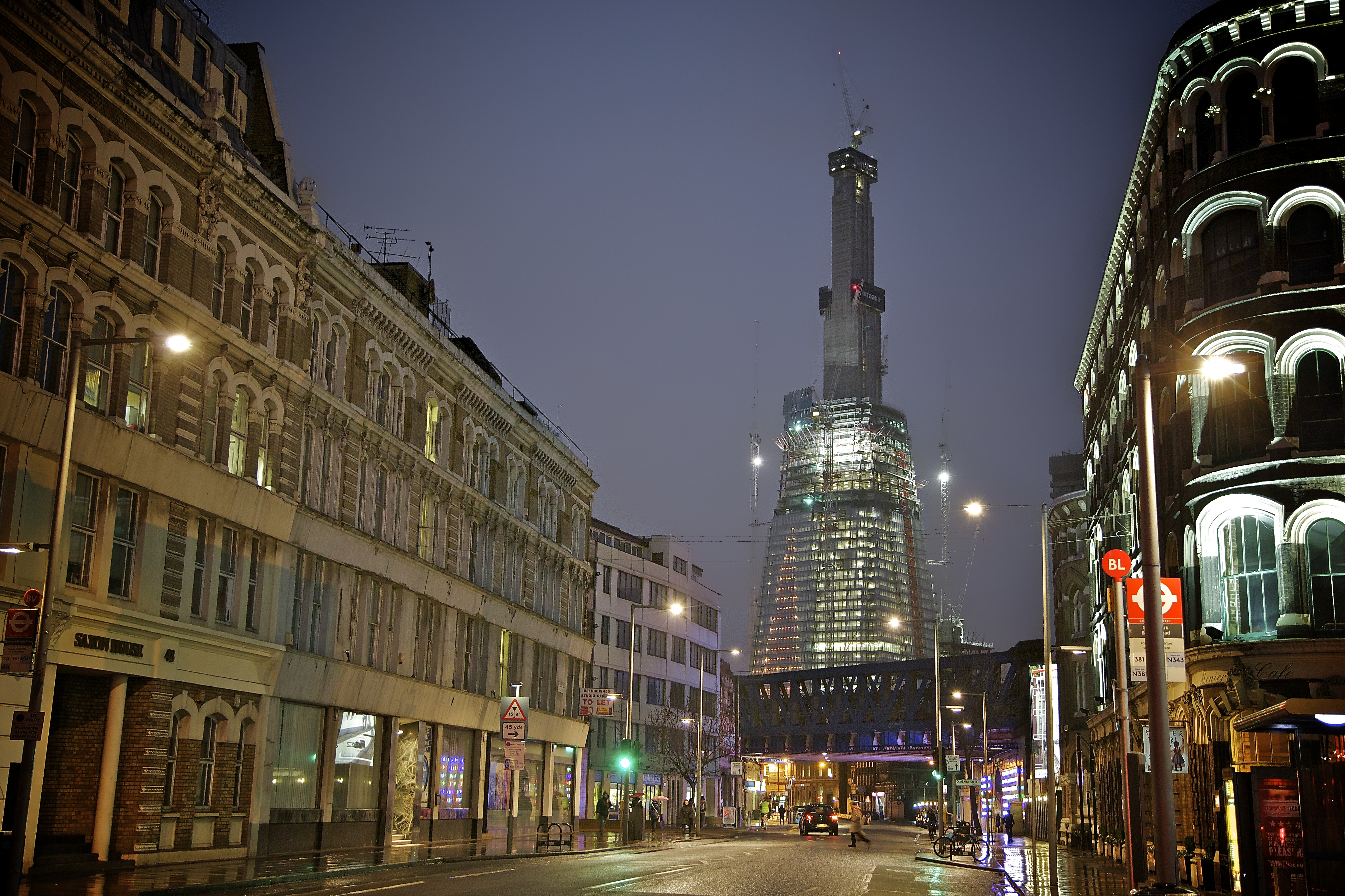 Shard London Bridge under-construction on New Year's Day 2011